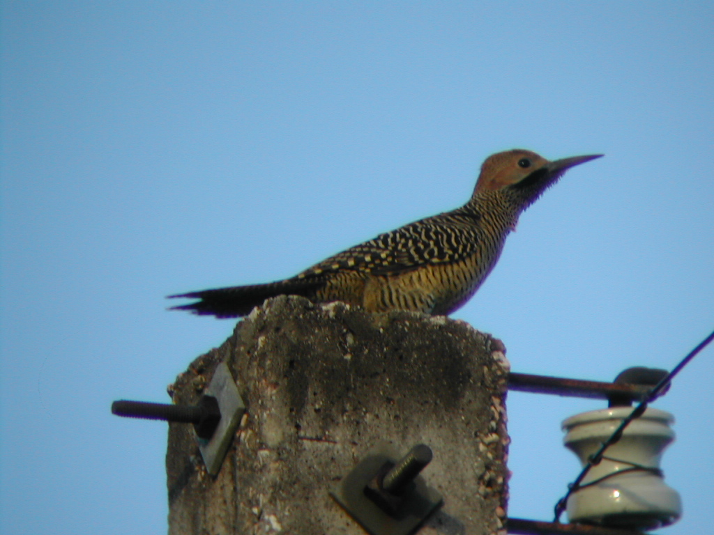 A stationary Fernandina's Flicker (Colaptes fernandinae) in Bermejas, Cuba.